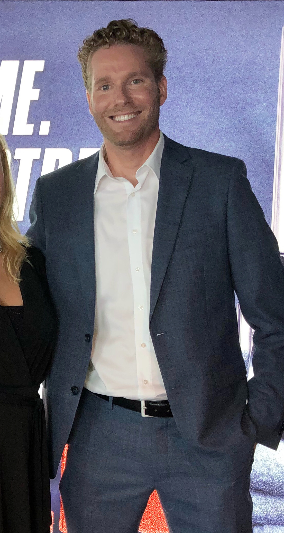 Dutch actor Sander Jan Klerk at premiere The Happytime Murders